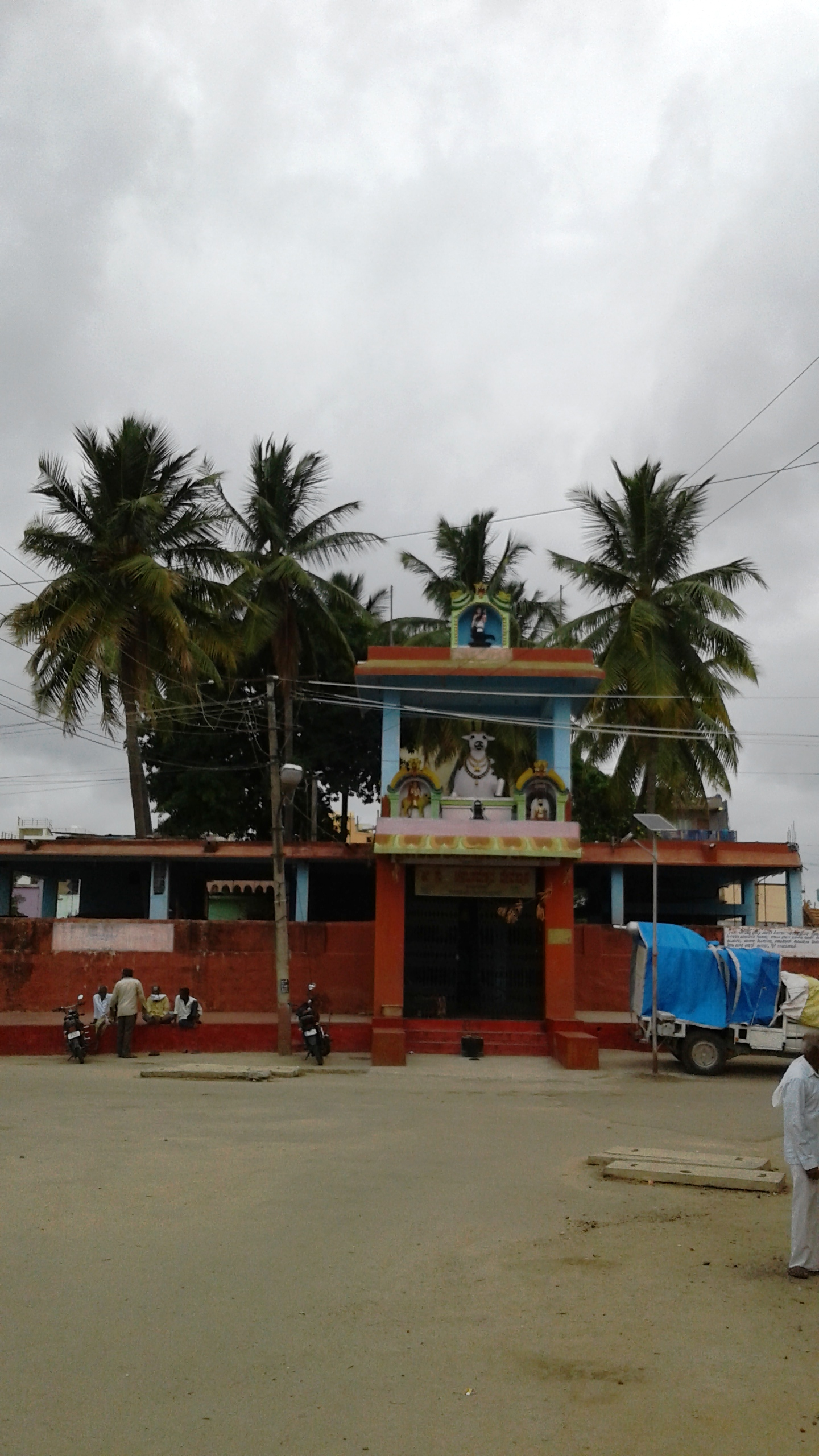 Melukote Hills, Mandya district, Karnataka state, India.